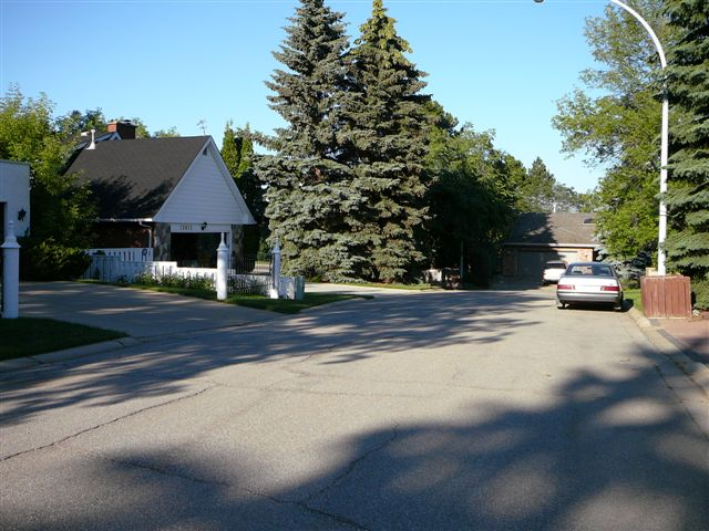 Laurier Heights residential street near Buena Vista Road. July 4, 2007